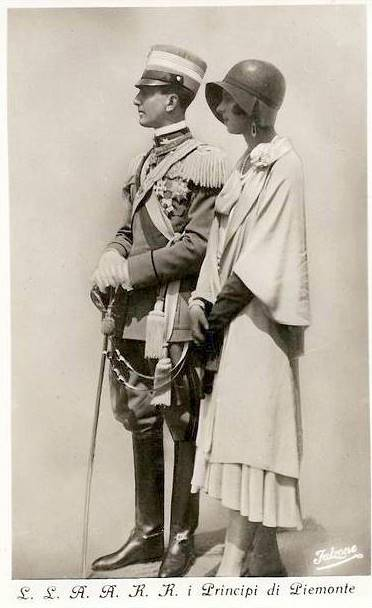 König Umberto II und Königin Marie Jose von Italien